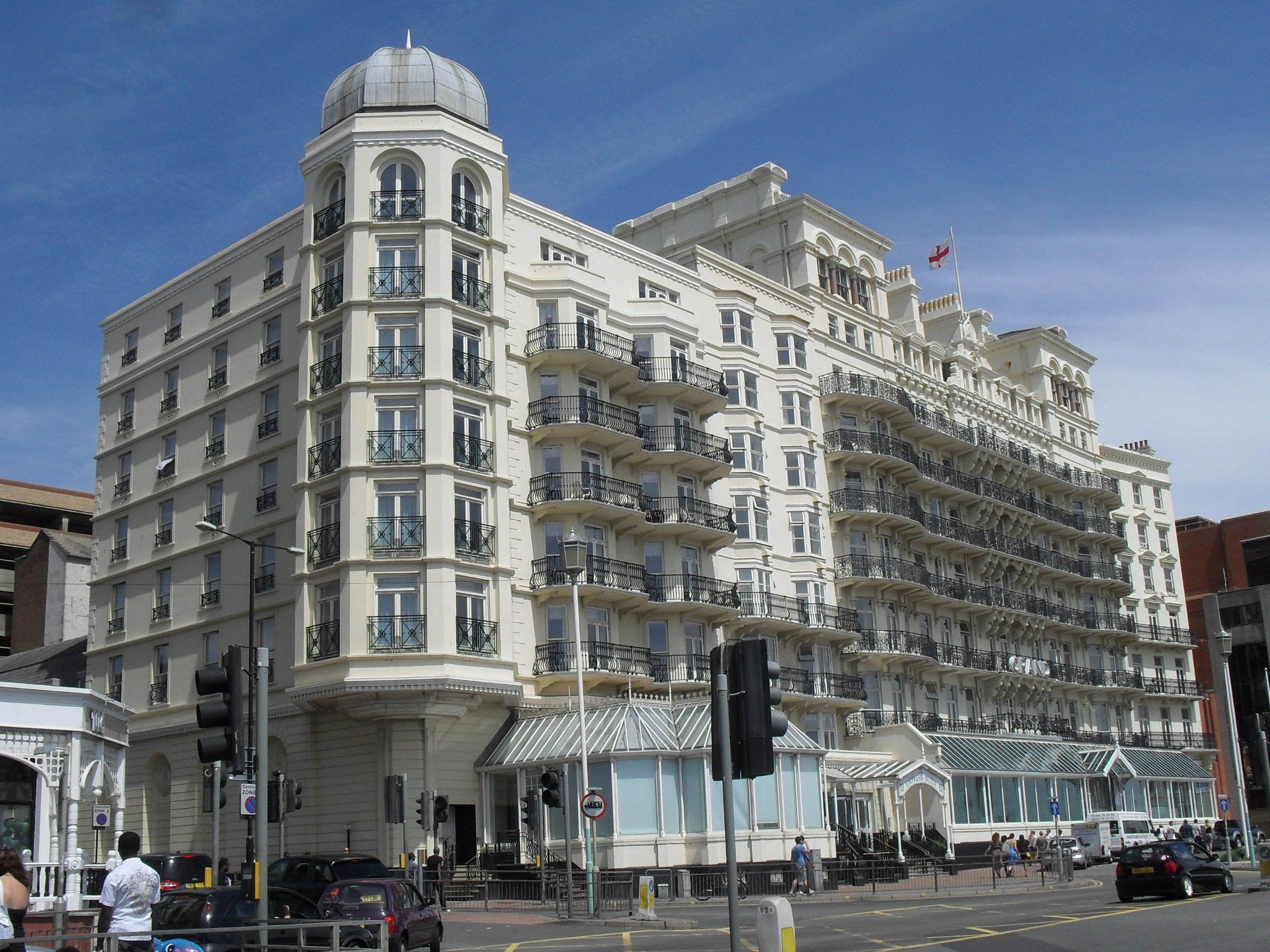 Grand Hotel, King's Road, Brighton, City of Brighton and Hove, East Sussex. Built in 1862–64 by John Whichcord. Brighton's tallest building and largest and most luxurious hotel when it opened. The Grand Hotel bombing of 1984 made it internationally famous. Listed at Grade II by English Heritage (IoE Code 482017)